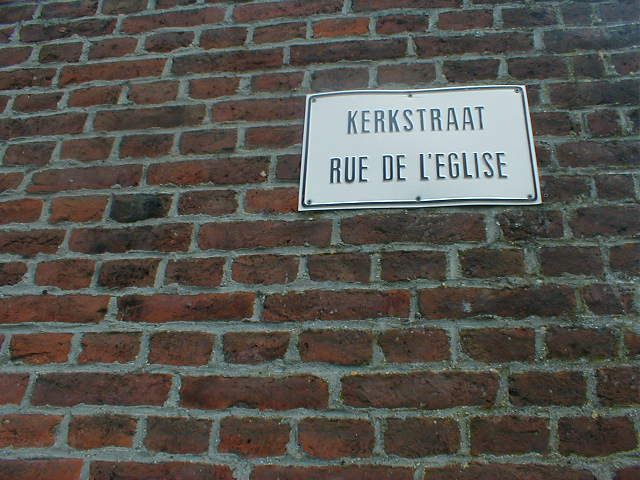 Photo of streetname in Herstappe, Limburg Belgium; this street was also called in Walloon "li voye do moustî" (same meaning)